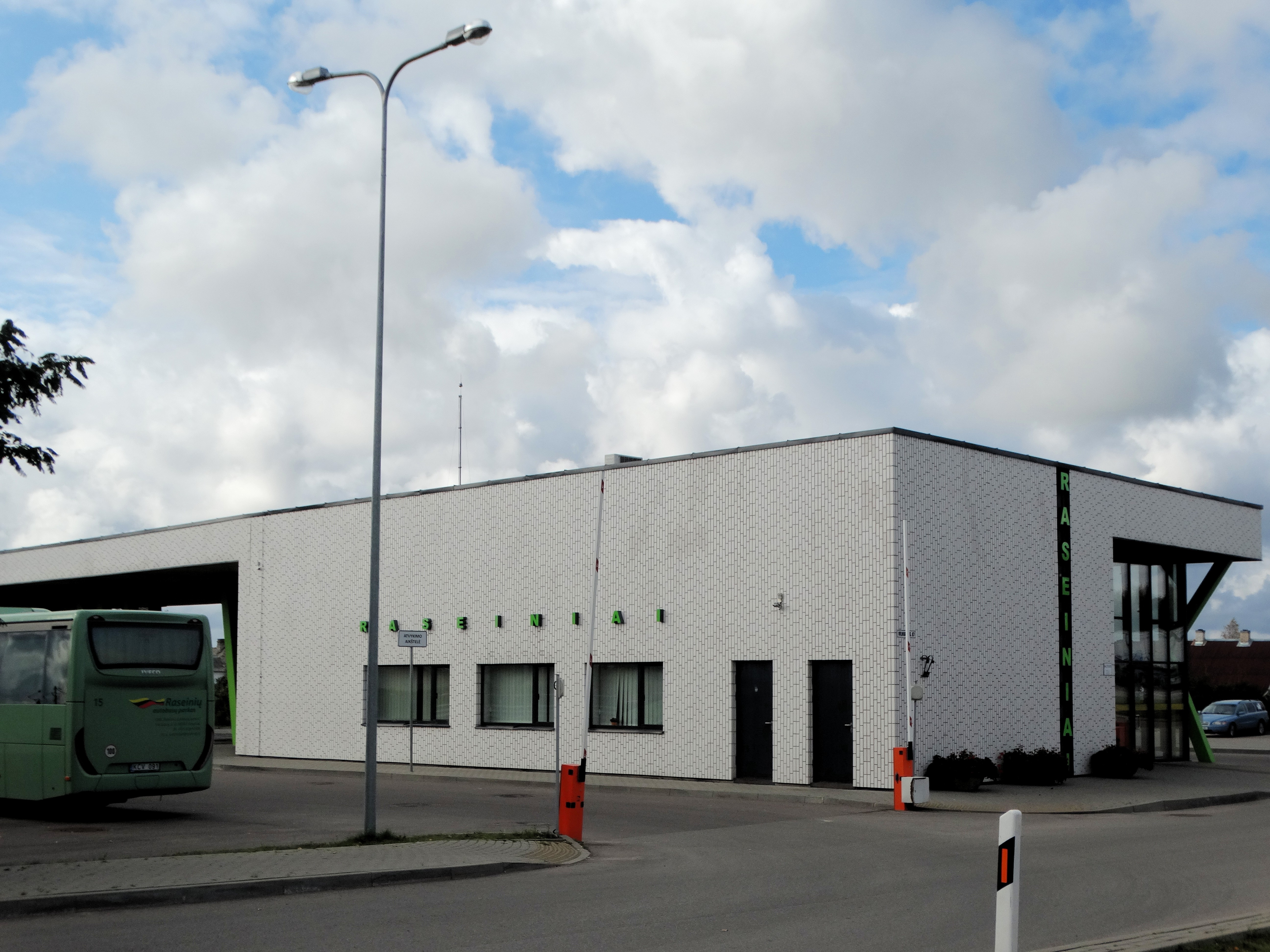 Bus station, Raseiniai, Lithuania